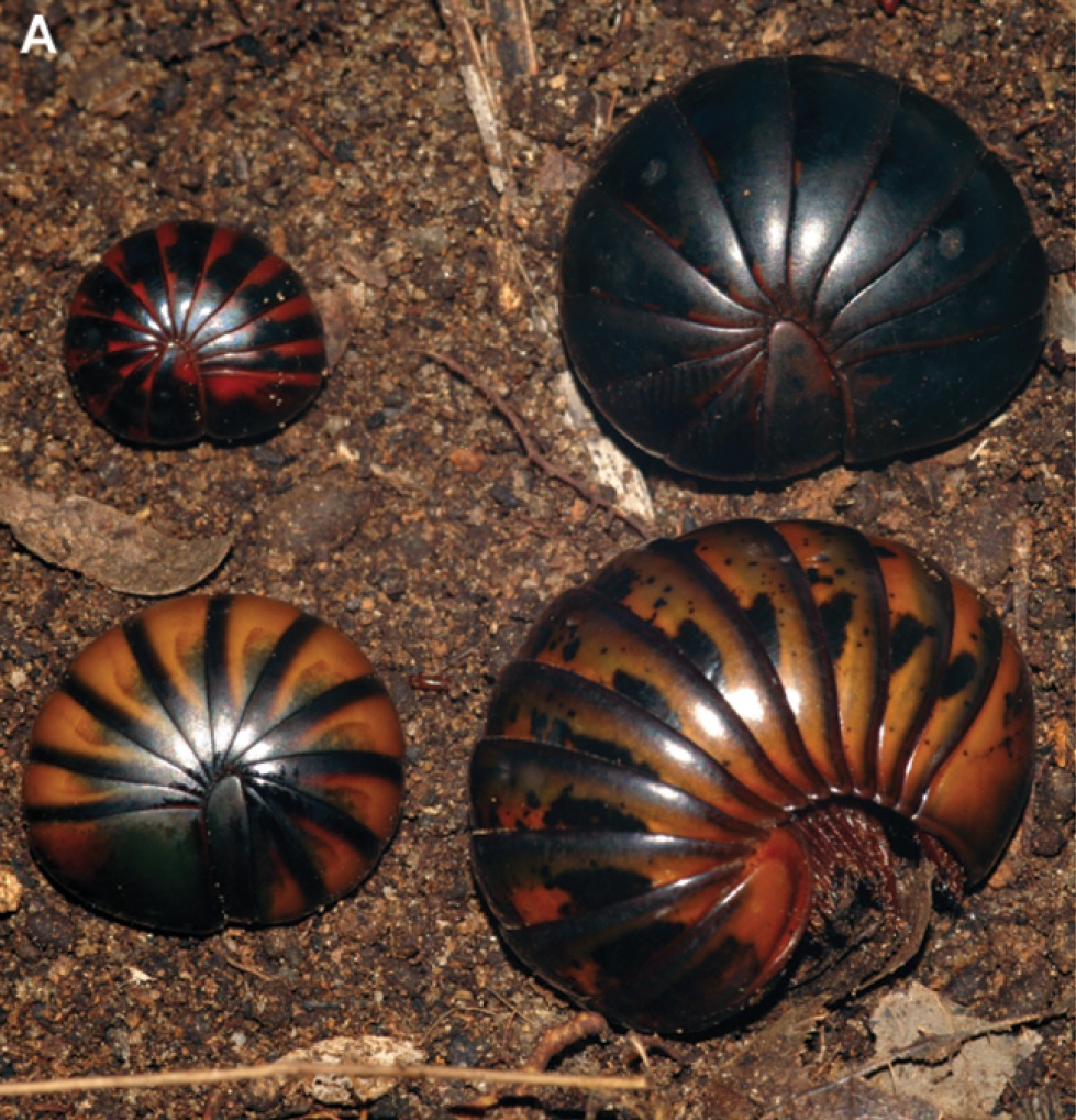 Sphaeromimus musicus (de Saussure & Zehntner, 1897) from Tsimelahy, upper left to lower left: red colour morph, black colour morph, normal colour morph, the similar looking sympatric Zoosphaerium blandum